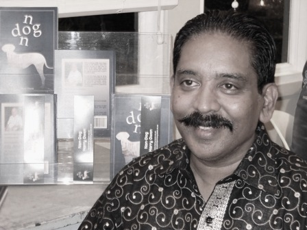 Depicted person: Amitabh Mitra – South African poet